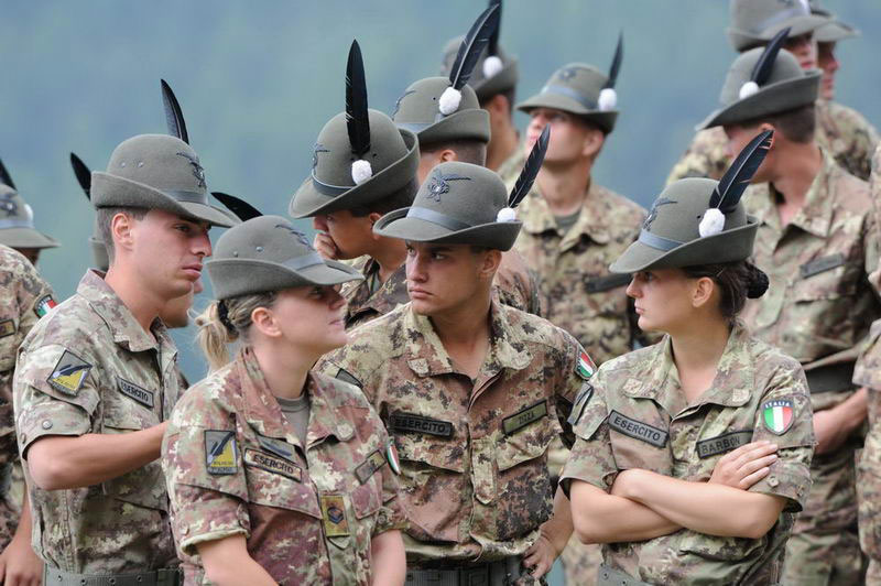 Soldiers of the Alpini Battalion "Feltre", 7th Alpini Regiment of the Italian Army during the Falzarego 2011 exercise.